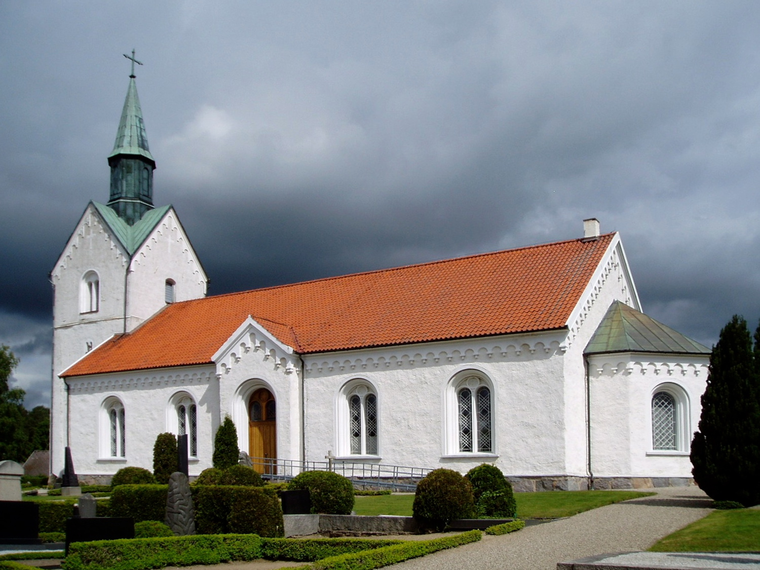 Church at Holmby, Eslövs municipality, Scania, Sweden